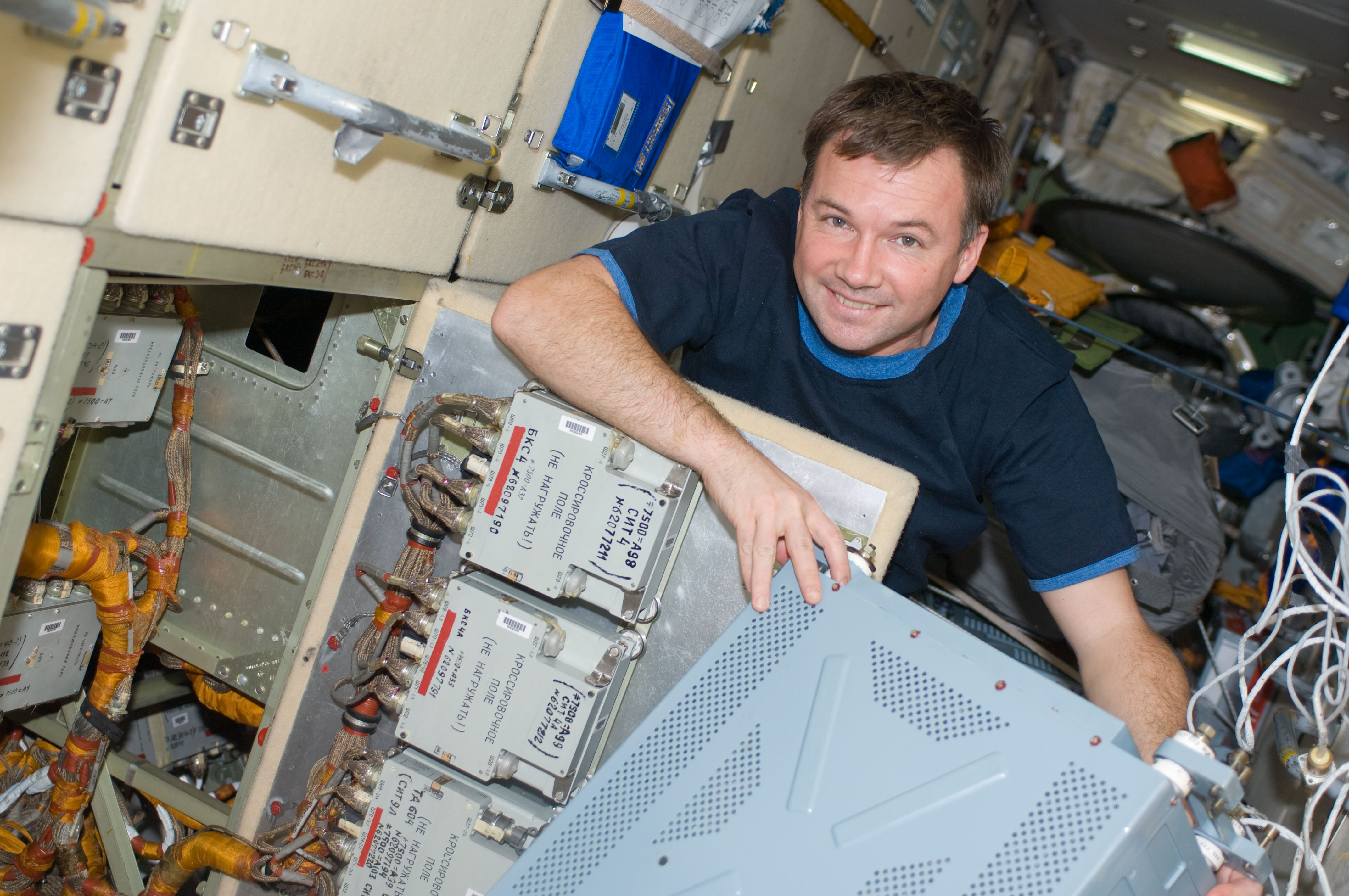 Cosmonaut Yury Lonchakov, Expedition 18 flight engineer, takes a moment for a photo while performing in-flight maintenance on the Komparus A3 System in the Zarya module of the International Space Station.